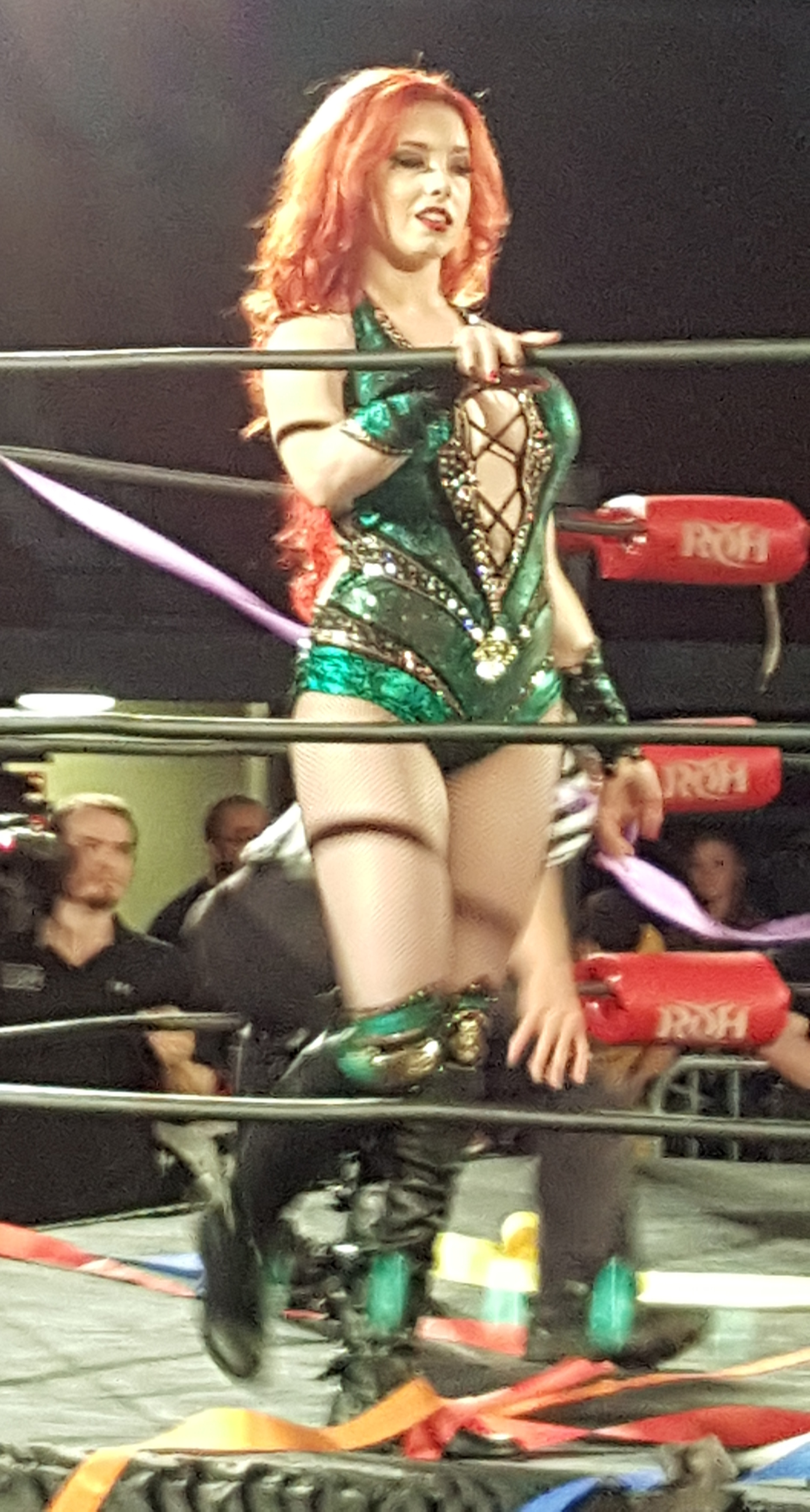 Taeler Hendrix at an ROH show on September 25, 2015. Took image myself that night.